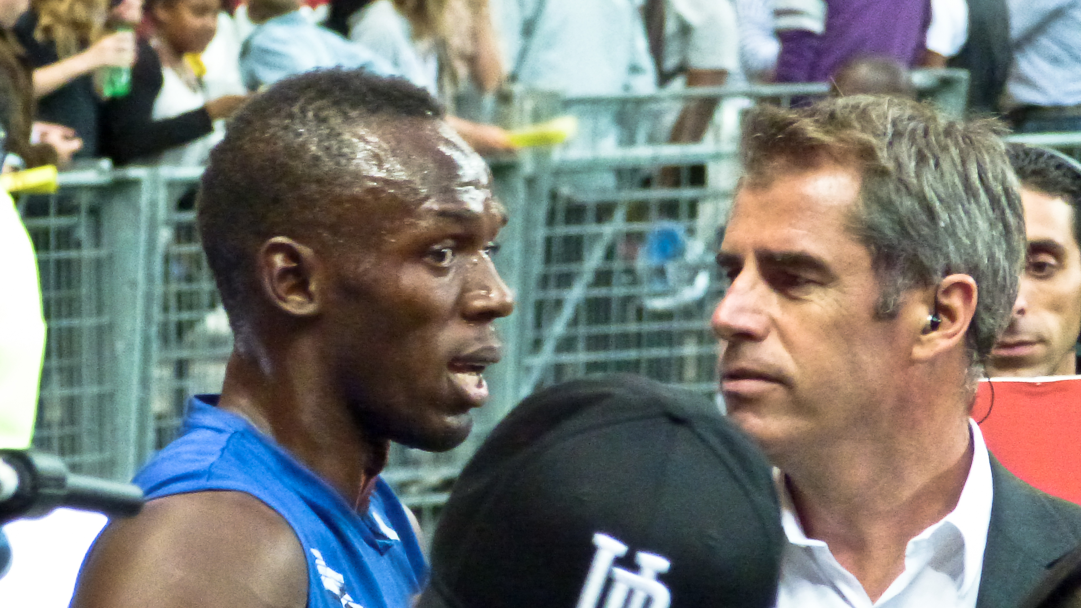 Usain Bolt interviewé par Marc Maury lors du meeting Areva 2011